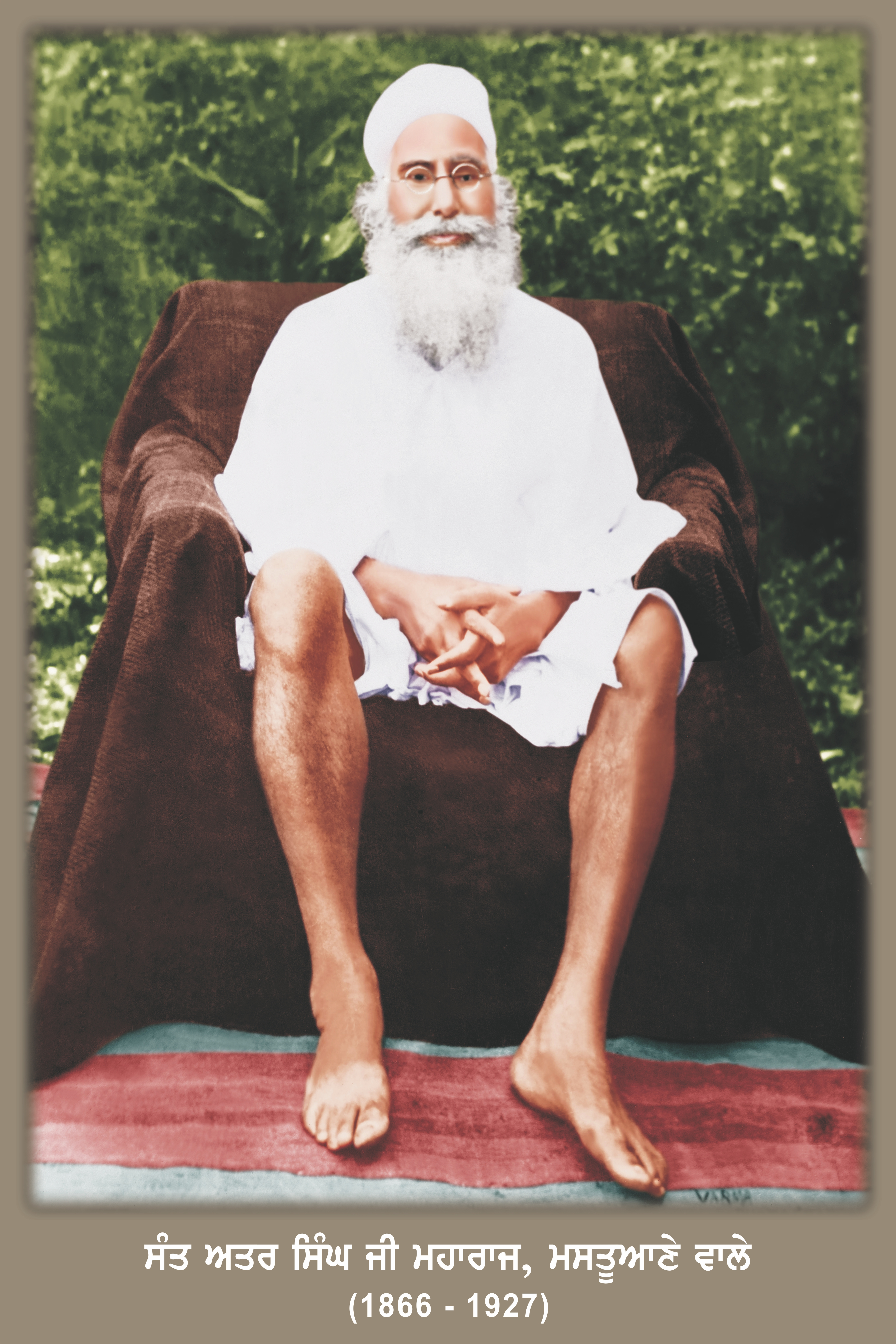 One of the most prominent Saints in Sikh history.